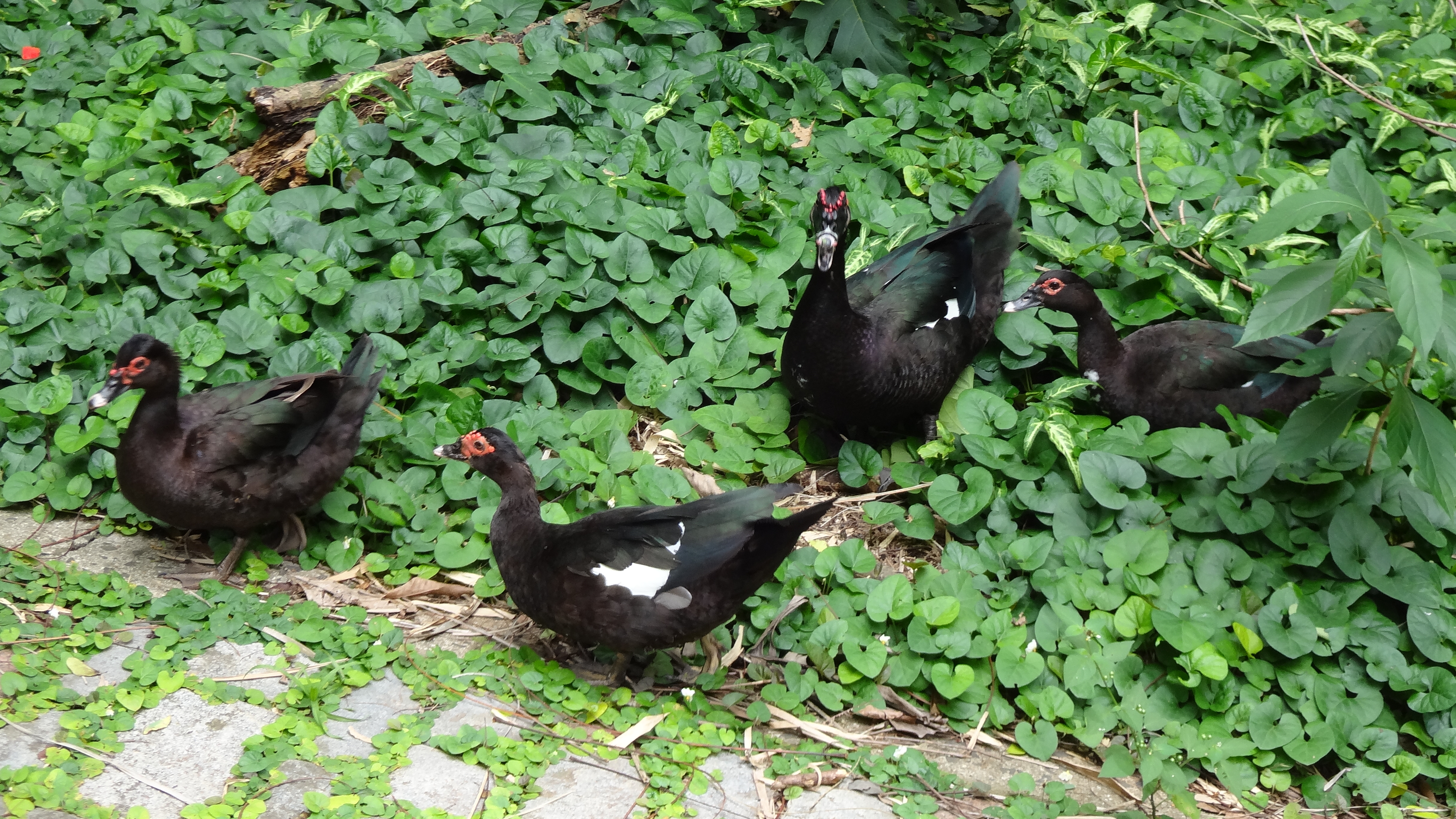 Muscovy duck